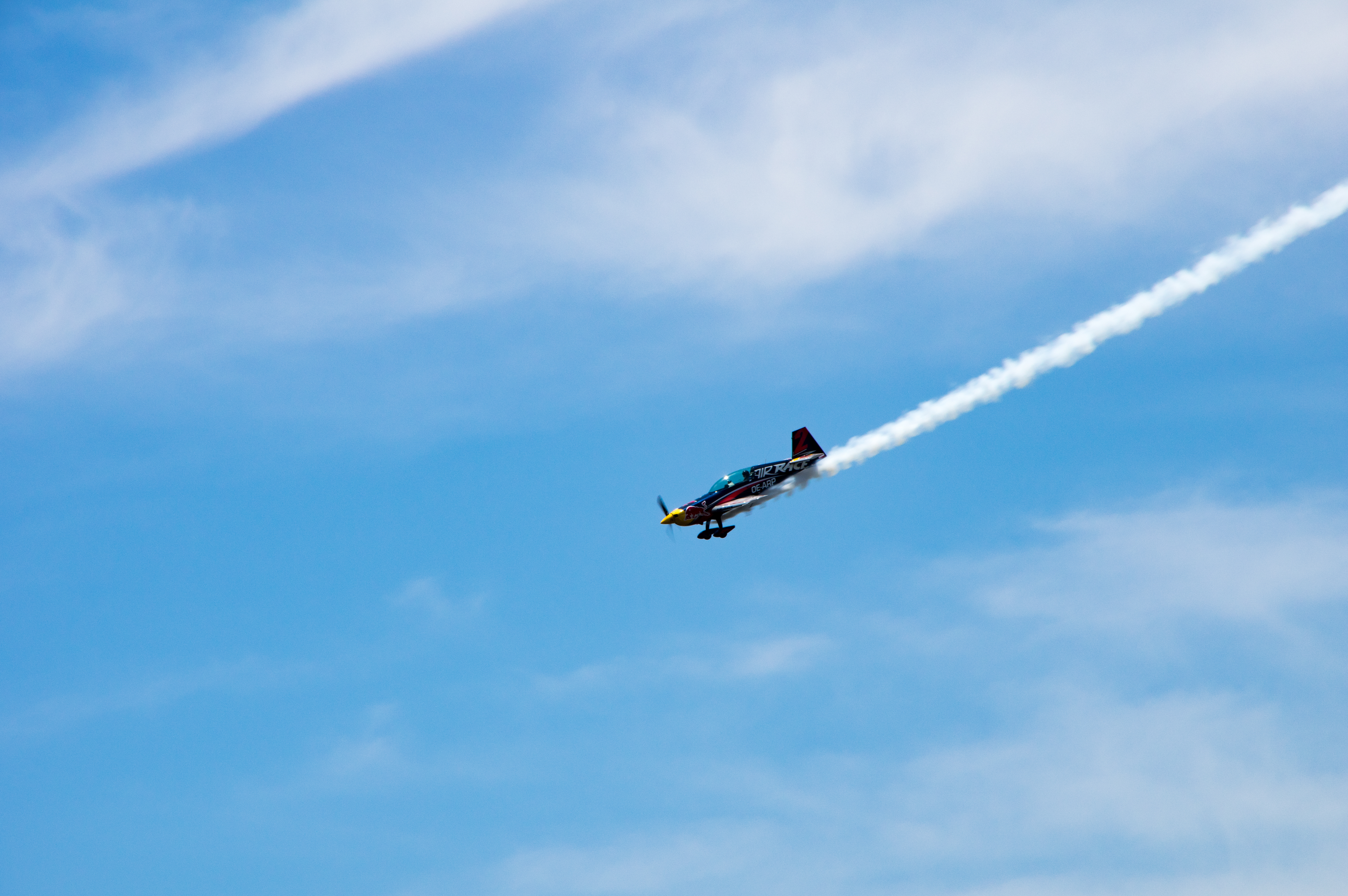 RED BULL AIR RACE CHIBA 2017-47.jpg